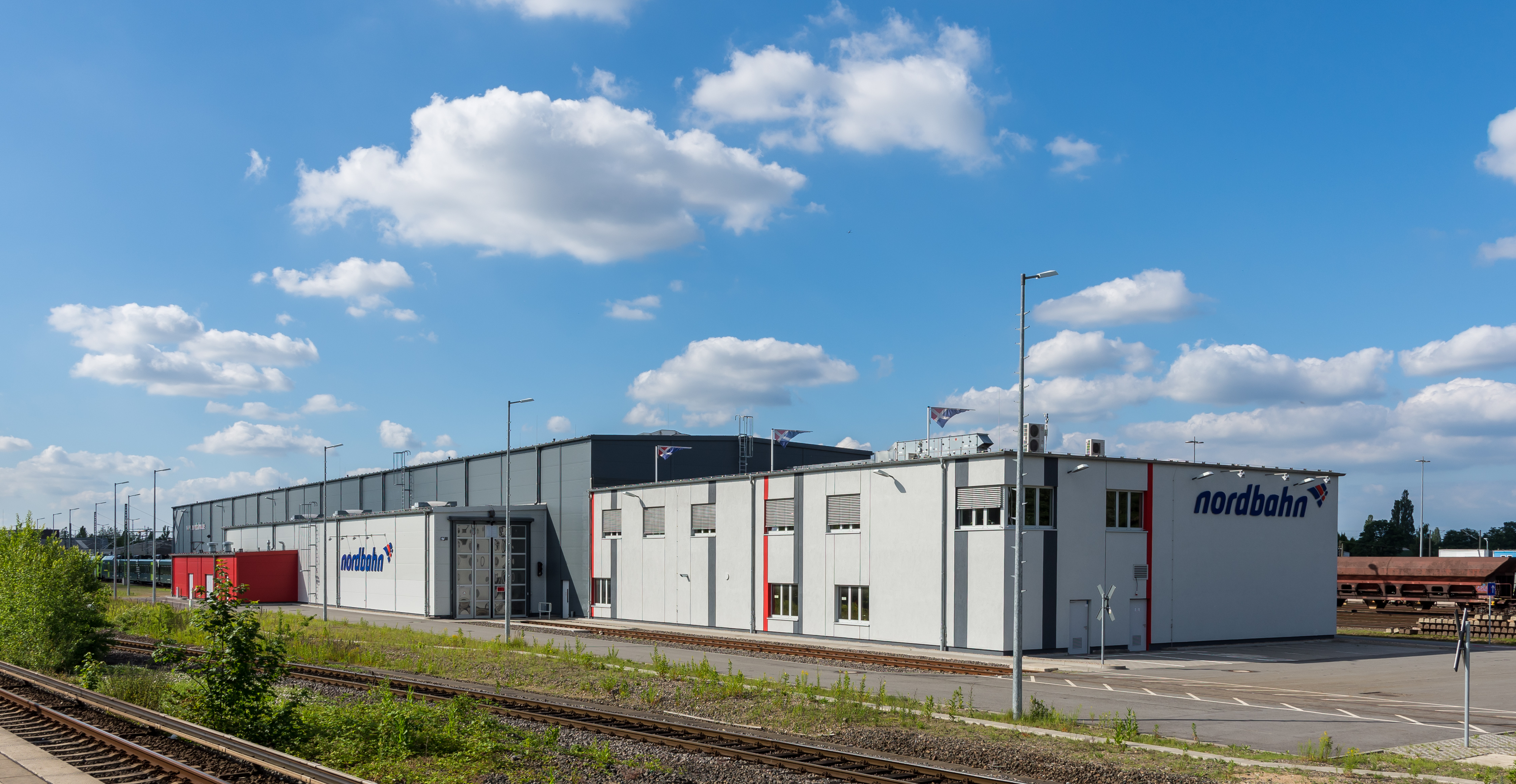 Railroad workshop for the Nordbahn railroad company in Hamburg-Rothenburgsort, adjacent to the Tiefstack station of the Hamburg S-Bahn commuter railroad.